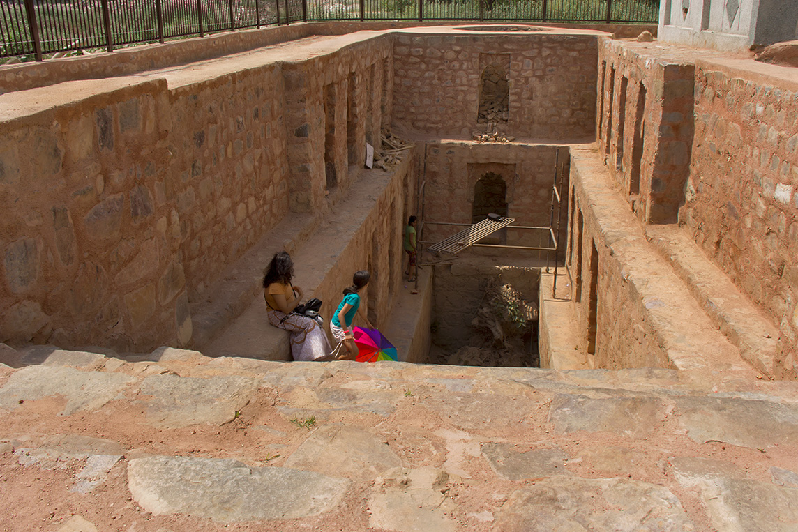 Front View of the Dwarka Baoli